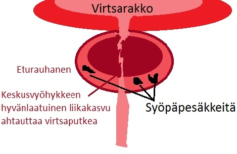 Prostate cancer and hyperplacia at the same time.